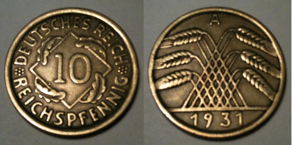 10 reichspfennig 1931 Germany